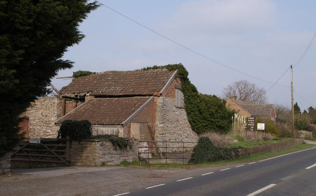 Parsonage Farm, Lyng Part of the farm, with an attractive ivy-mantled barn, seen from the A361. As the notices indicate, the farm produces its own cider.